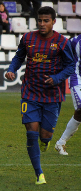 Rafinha playing for FC Barcelona B